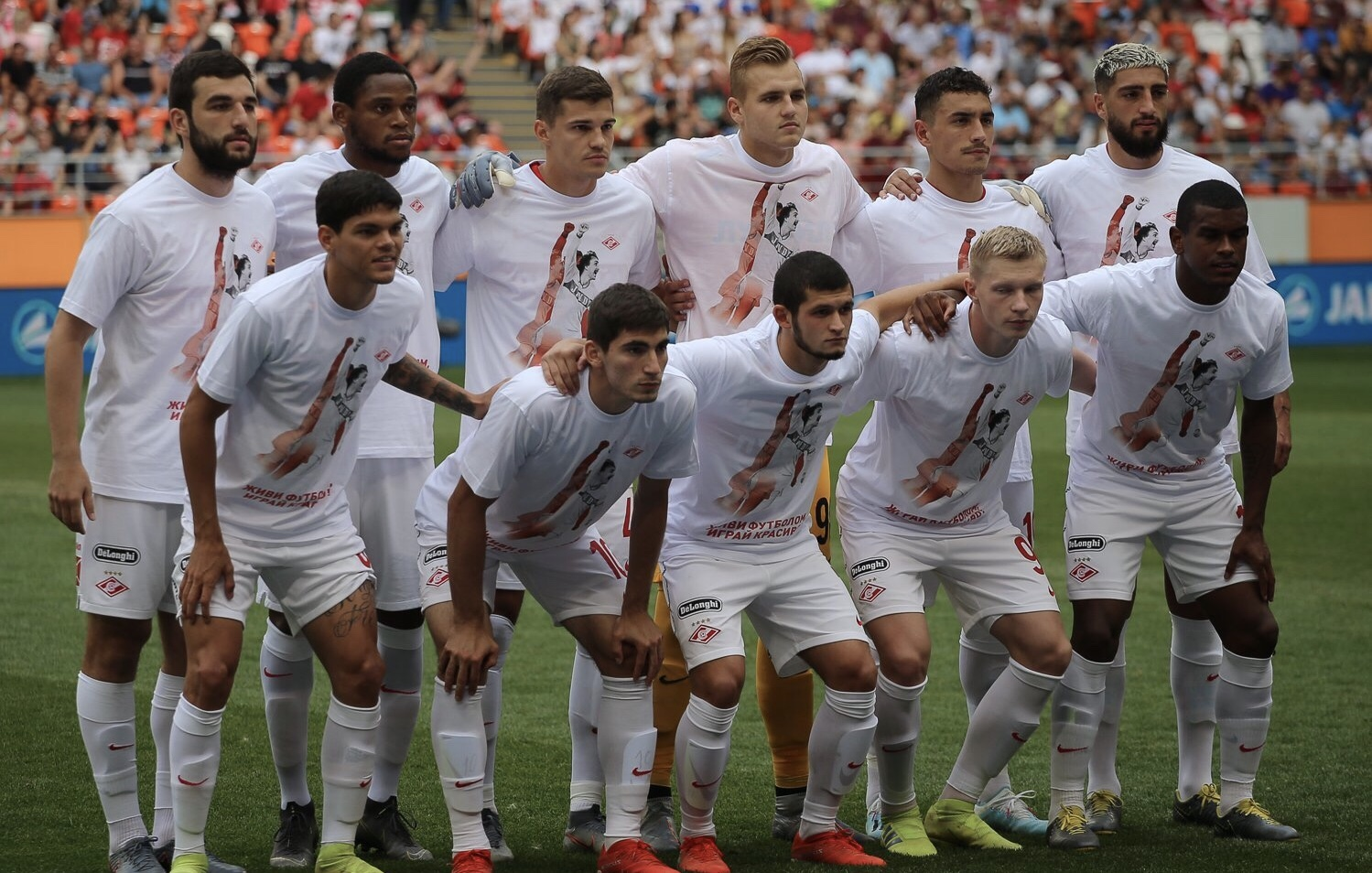 FC Spartak Moscow players in a game against FC Tambov